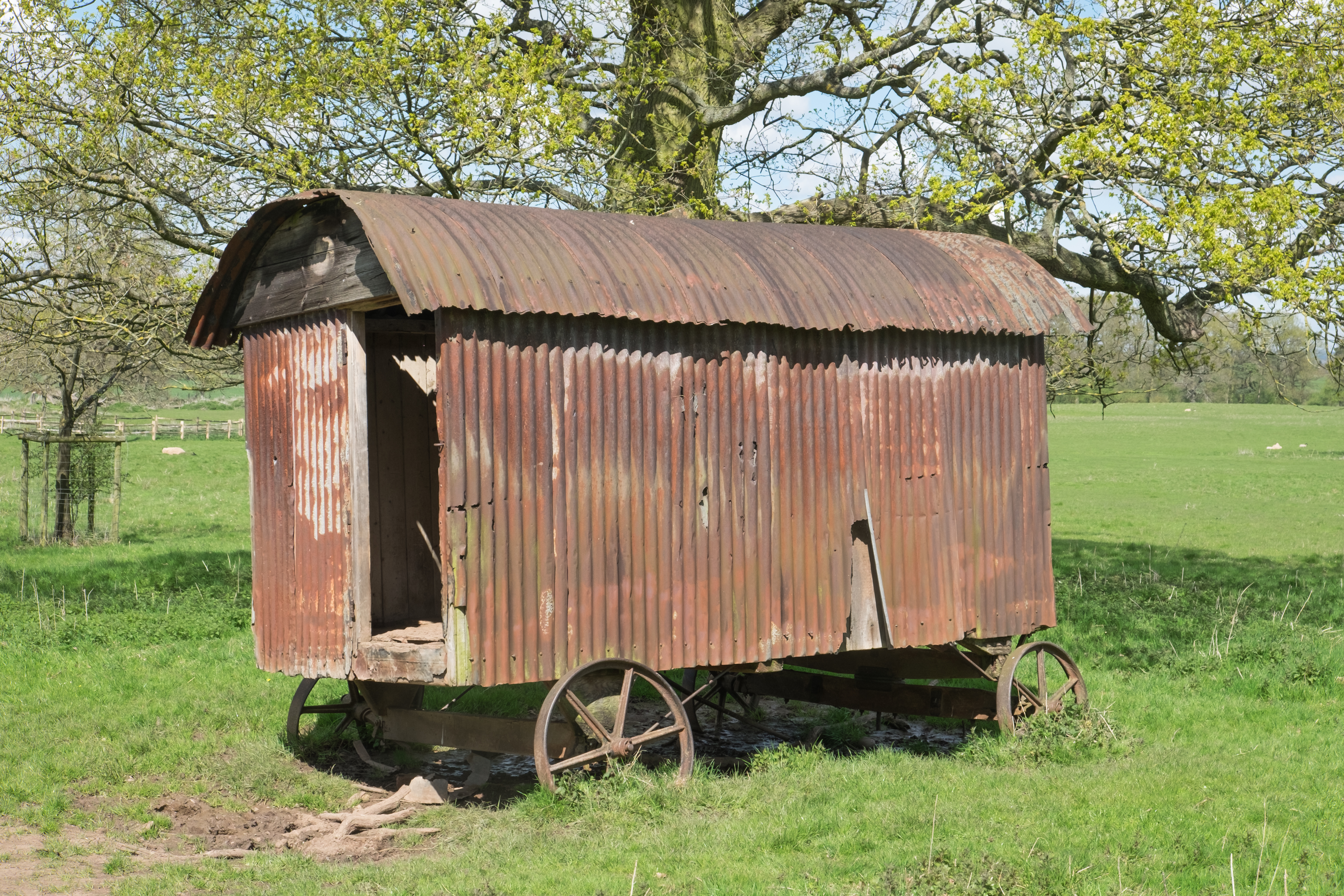 Shepherd's hut in Hanbury Hall Park, Worcestershire